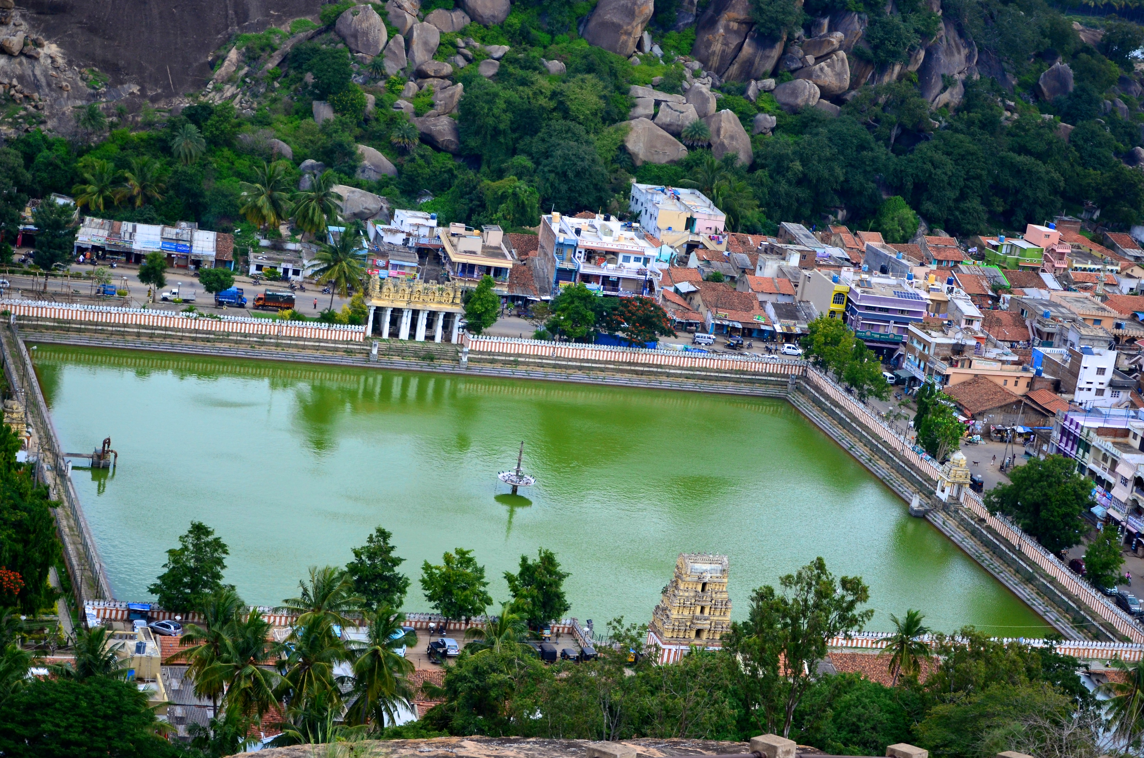 View from Vindhyagiri Hill where the monolithic statue of Gomateshwara is present.